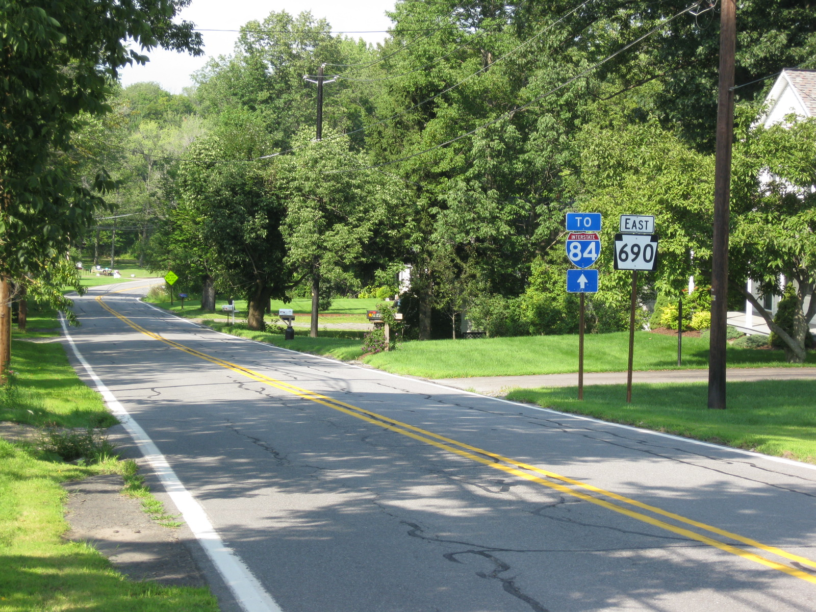 Pennsylvania State Route 690 heading eastward through Madisonville, Pennsylvania with signage denoting Interstate 84 is ahead.